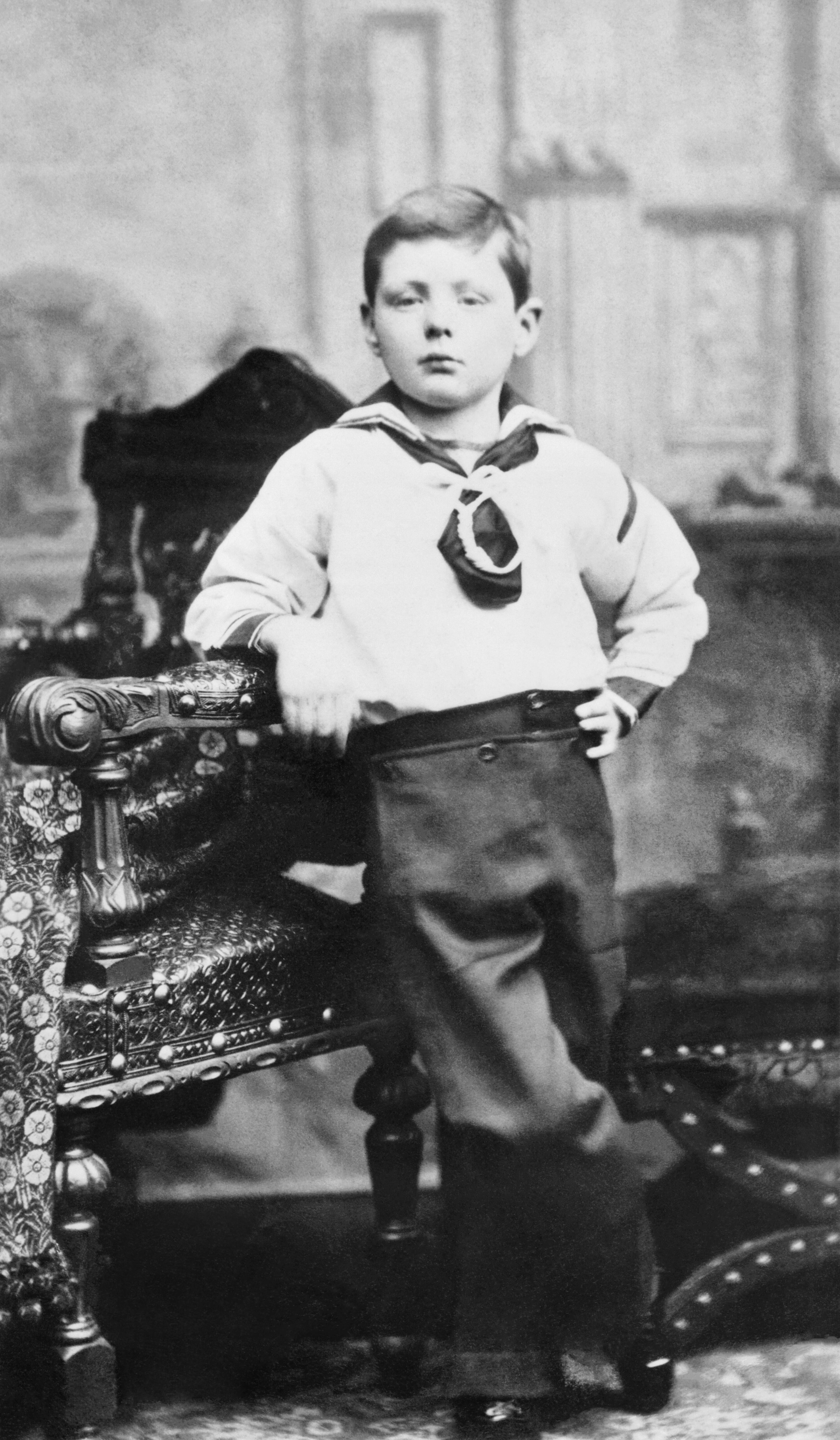 Winston Churchill as a young boy, aged 7, in Dublin, Ireland.